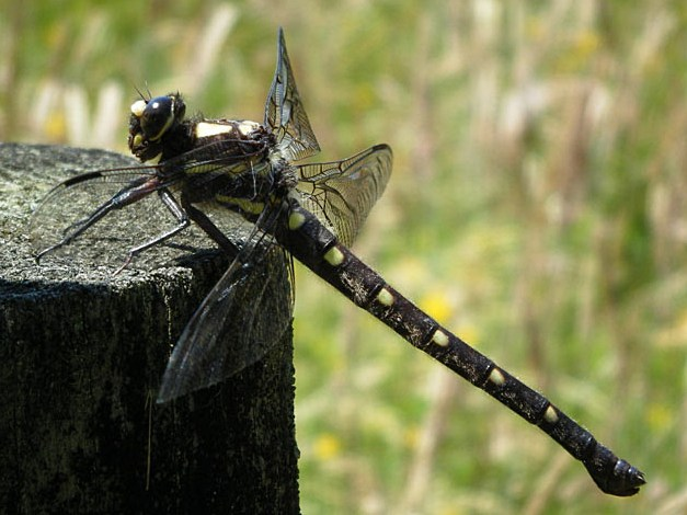 Uropetala not Petalura pulcherrima